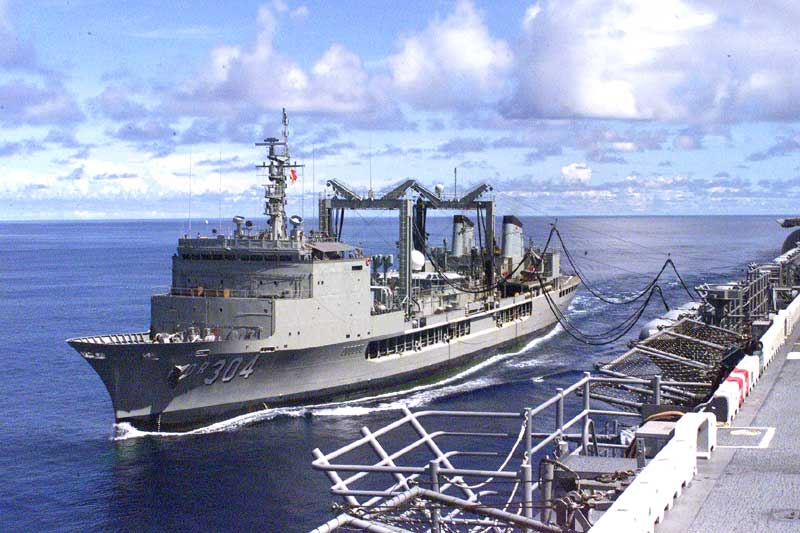 The Royal Australian Navy (RAN) supply ship HMAS Success (AOR 304) steams alongside the U.S. Navy assault ship USS Essex (LHD-2) for an underway replenishment on 2 May 2001. The Success transferred more than 1,249,186 l (330,000 US gal) of fuels to the Essex. The Essex was en route to Australia to participate in Exercise "Tandem Thrust 2001", a combined United States and Australian military training exercise.